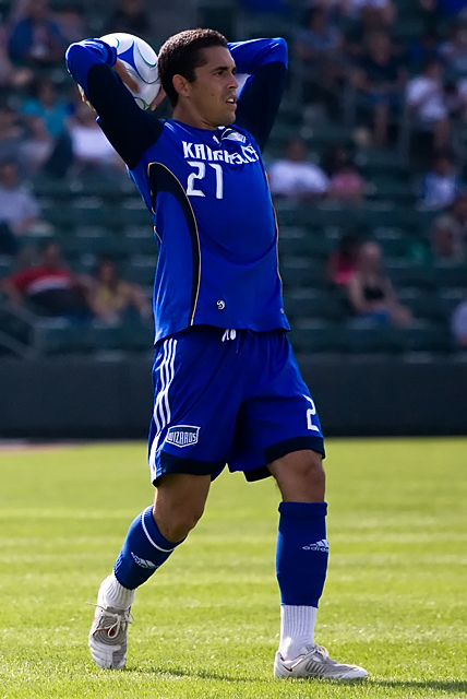 American soccer player Herculez Gomez of the Kansas City Wizards prepares to take a throw-in during a game at CommunityAmerica Ballpark. (10/05/08)